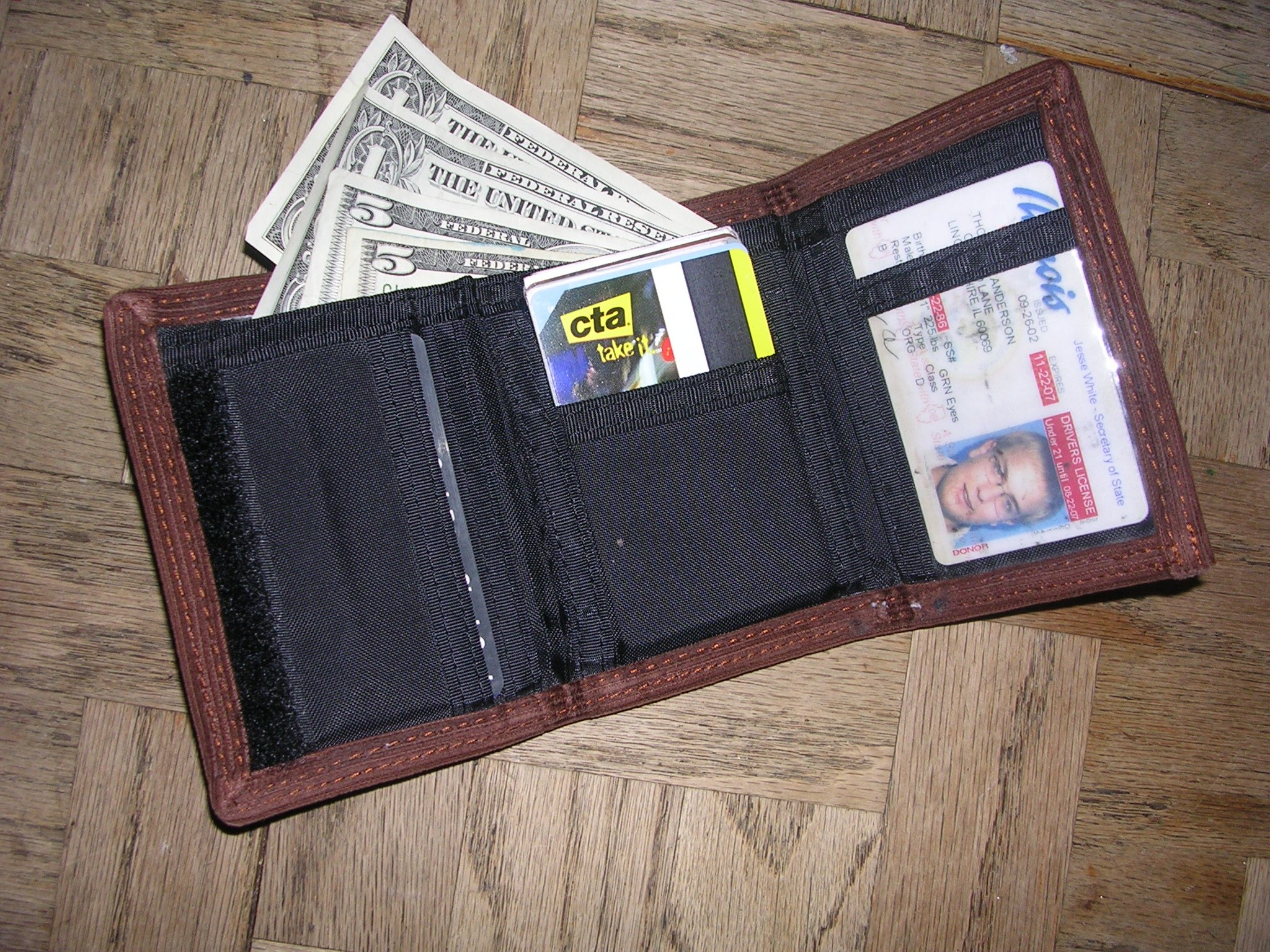 A picture of a wallet.